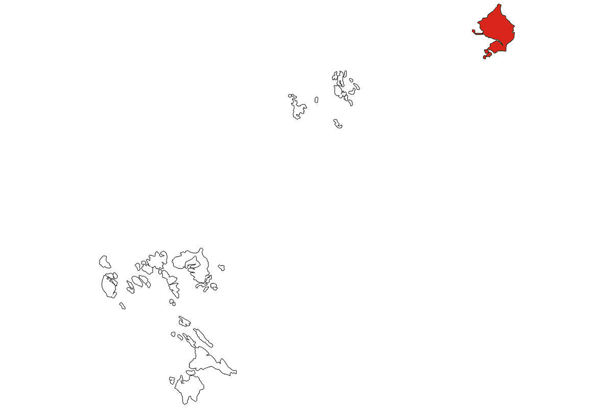 Locator of Natuna Islands Regency within Riau Islands Province